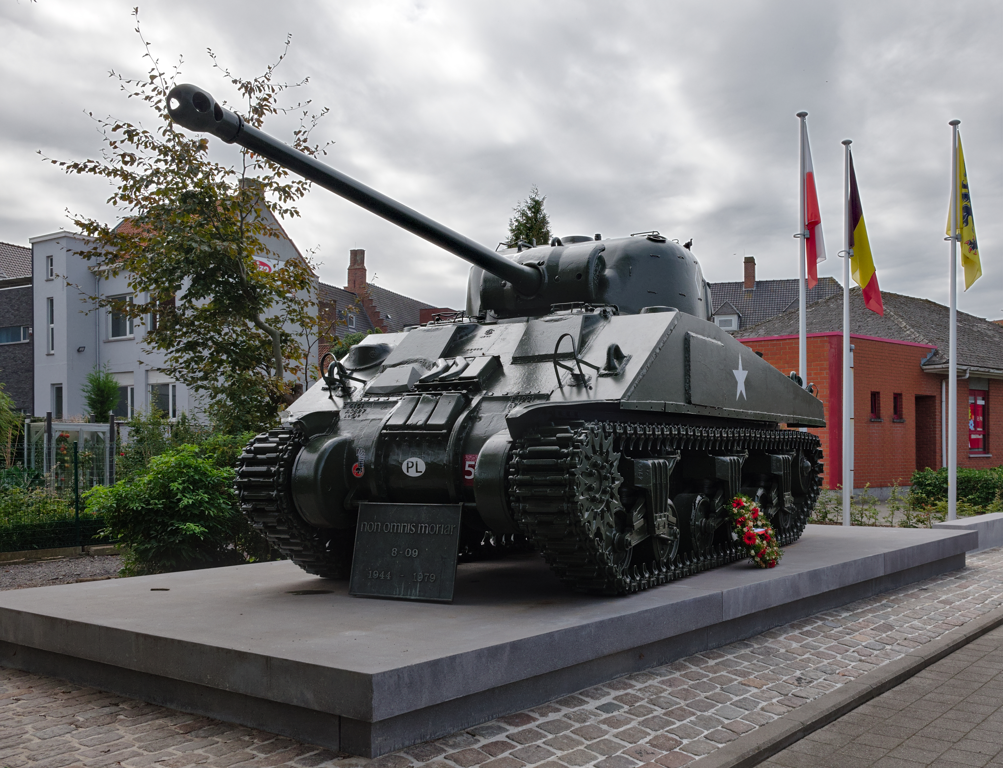 Liberation monument in Tielt, Belgium. Sherman Firefly (M4A4) tank. This photo of movable heritage has been taken in the Flemish Region